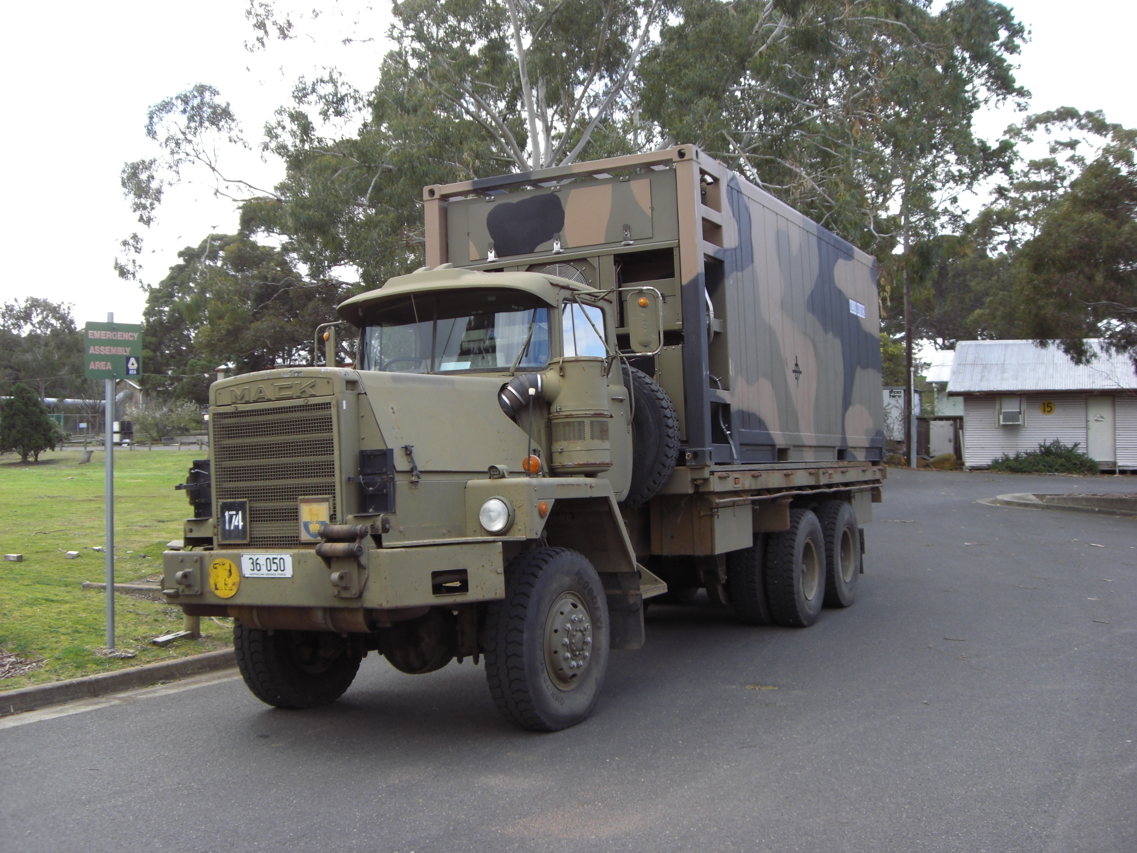 20' Refrigerated Container with Genset based on a Mack RM truck